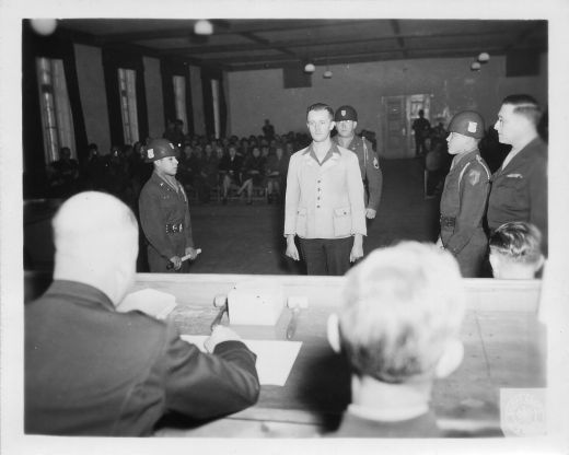 30 December 1947. At the last War Crimes Trial in Dachau, Ger., 15 out of the 19 of the accused were found guilty and their sentences ranged from 5 yrs. to life imprisonment with one death sentence. The accused former SS Master Sgt. Erhard Brauny was sentenced to life imprisonment for his terrible crimes against humanity. President of the court was Col. Frank Silliman of Philadelphia, Pa., who passed sentence on the 15 accused. The guards that guarded each of the accused as they were brought in; are: L.: Pvt. Daniel Surita of P.O. Box 644 Hammond, Ind. In back of accused: S/Sgt. Wm. F. Wielochowski of 1650 Norris St., Camden, N.J.-R.; Private Ernest C. Westbrook of 1517 1/2 Michigan Ave., Clearwater, Florida and the interpreter, Rudolf Nathanson of New York, N.Y.